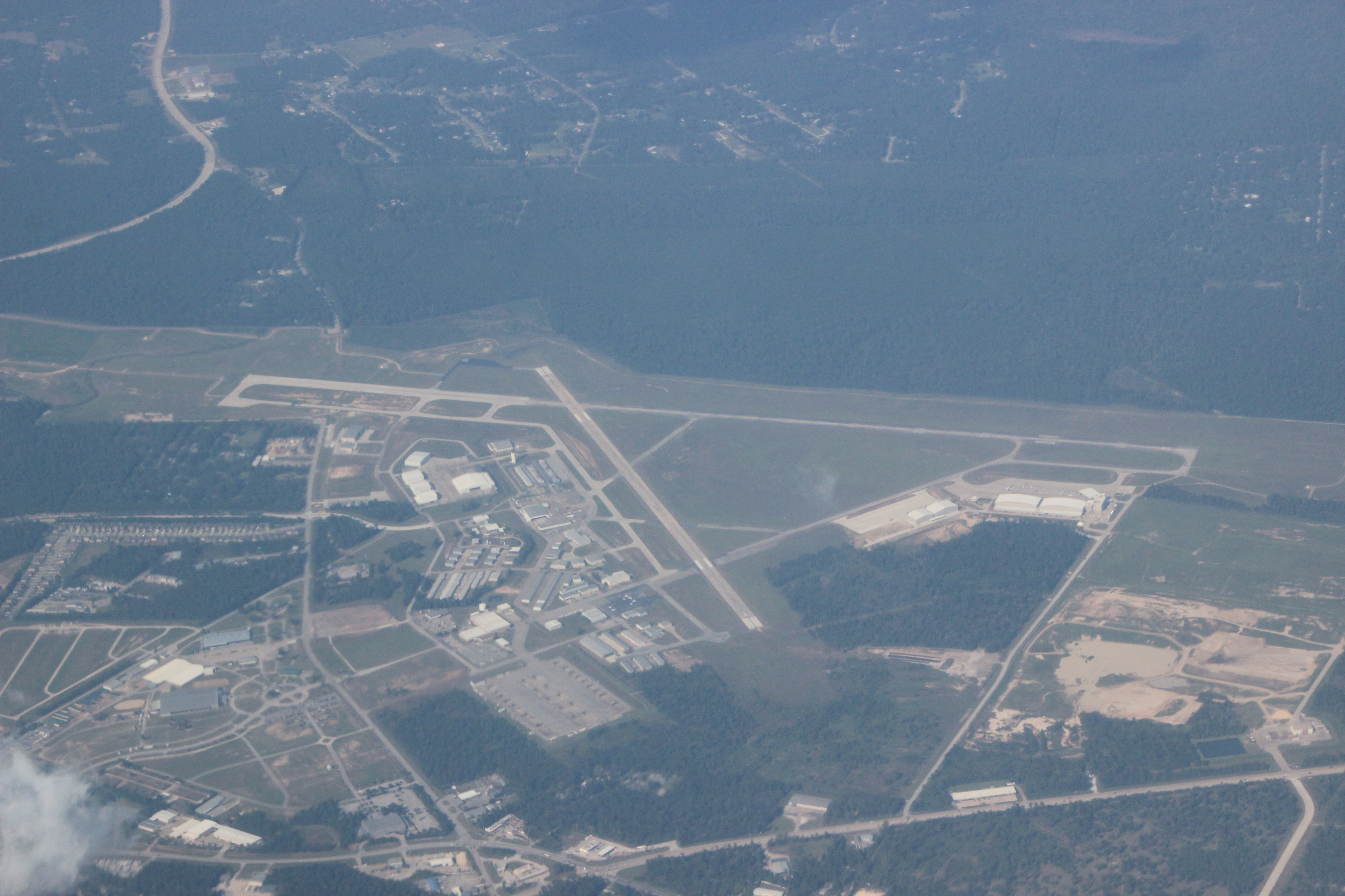 Aerial view of Conroe-North Houston Regional Airport in the US state of Texas looking in a northeasterly direction, taken from a passing airliner. The grey rectangular area in the lower middle of the image is the parking ramp for the helicopters of the 1st Battalion, 158th Aviation Regiment, United States Army Reserve.